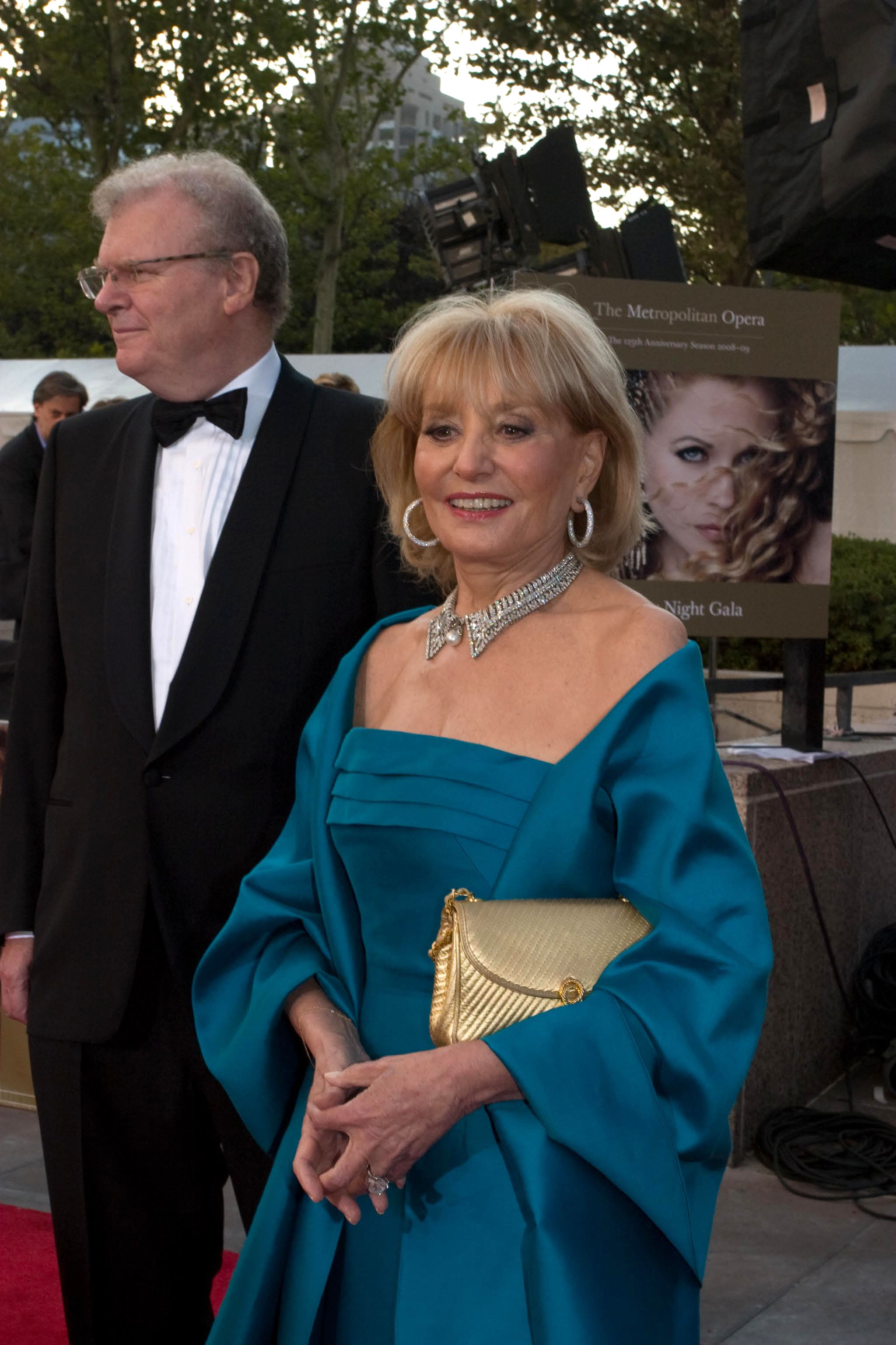 Journalist Barbara Walters, at the Metropolitan Opera opening in 2008, with Sir Howard Stringer behind her. © Rubenstein, photographer Martyna Borkowski